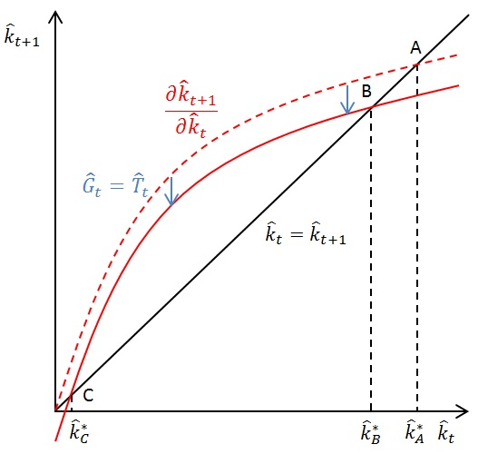 Phase diagram, Overlapping generations model,fiscal policy